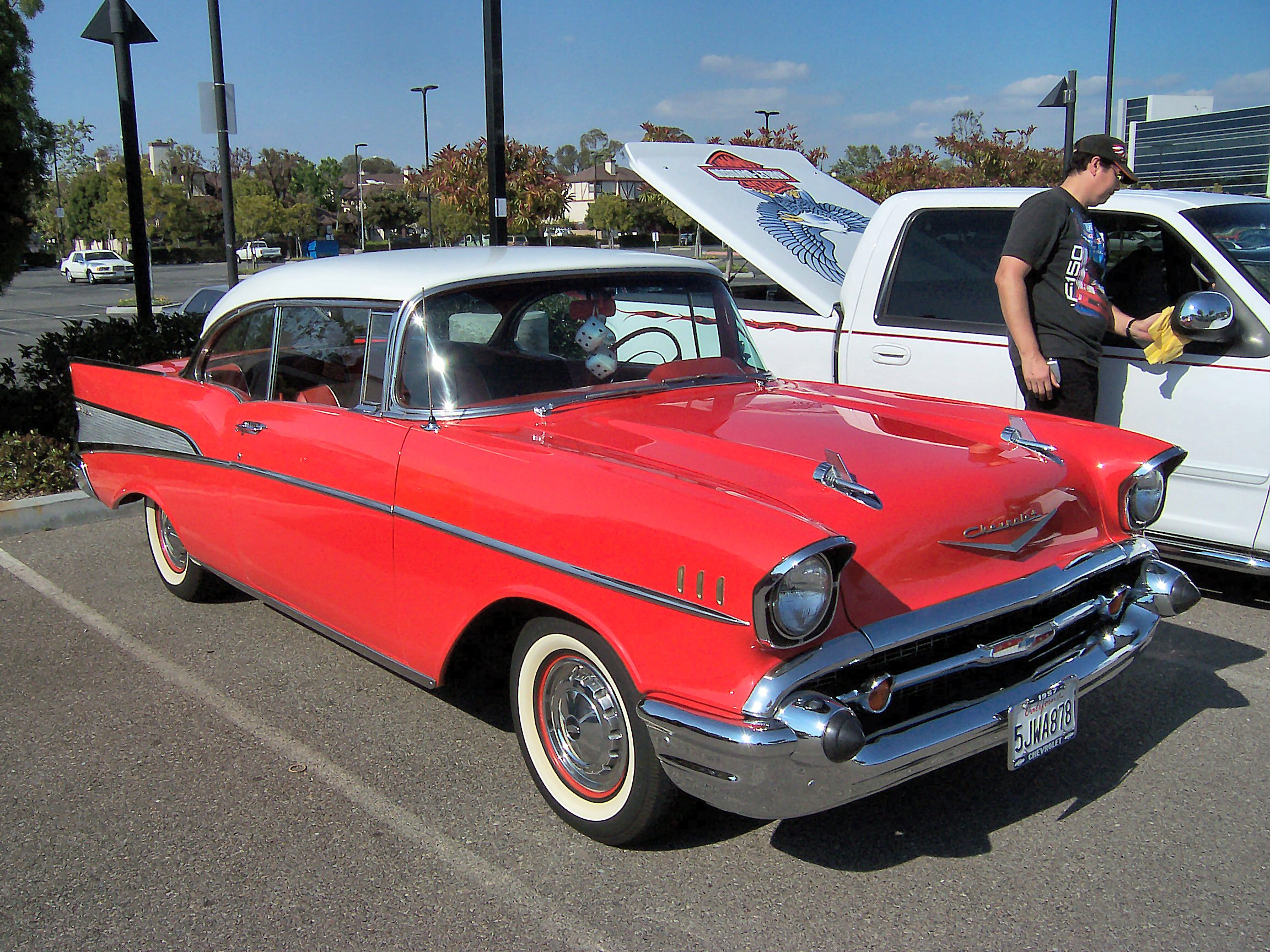 1957 Chevrolet Bel Air. Photo by User:Morven.